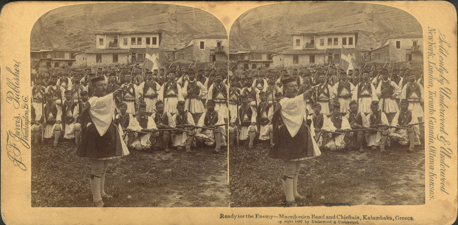 Underwood & Underwood - Ready for the Enemy - Macedonian Band and Cheiftain, Kalambaka, Greece, 1897